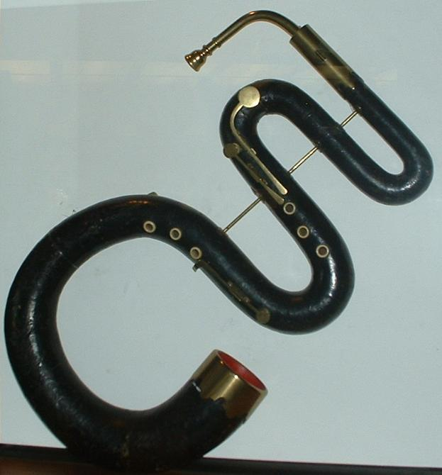 Photographed at the V&A museum, London, 02-Jan-06.